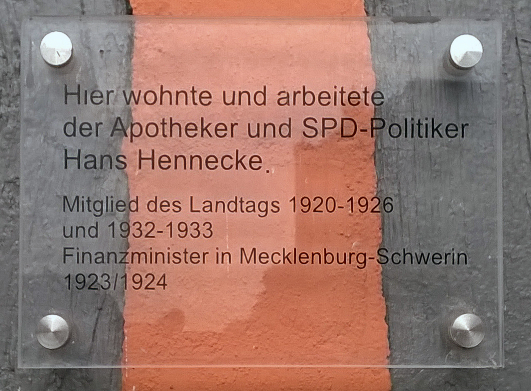 Memorial plaque, Hans Hennecke, Neuer Markt 21, Waren (Müritz), Germany